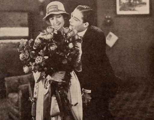 Still from the American comedy romance film The Honeymoon (1917) with Constance Talmadge and Earle Foxe, on page 33 of the December 22, 1917 Exhibitors Herald.